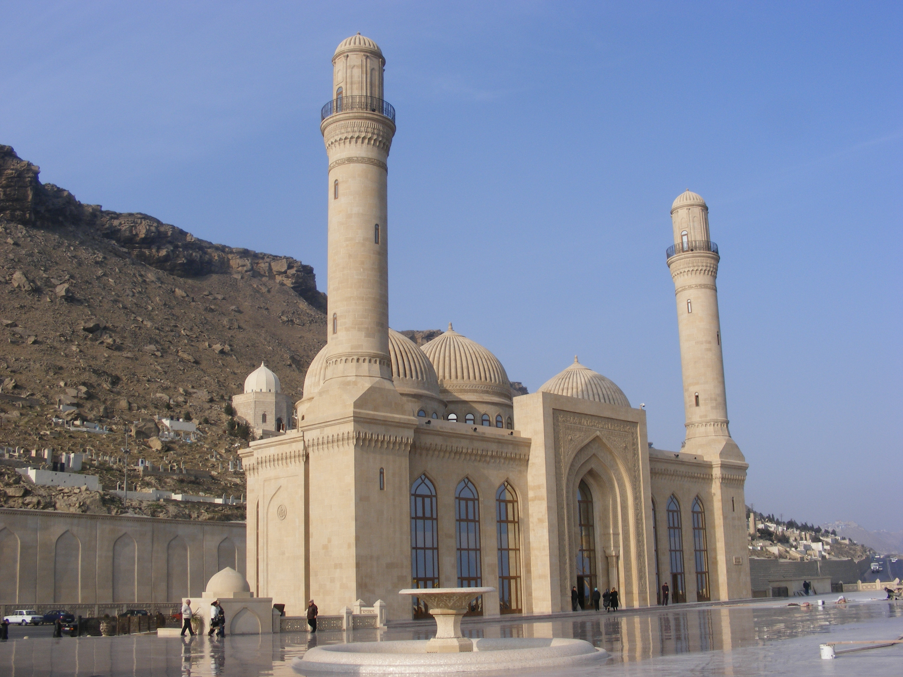 Bibi-Heybat Mosque, Baku, Azerbaijan.